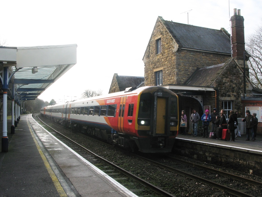 South West Trains' 159005 arrives at Sherborne station in Dorset, with a train from Exter St Davids to London Waterloo.